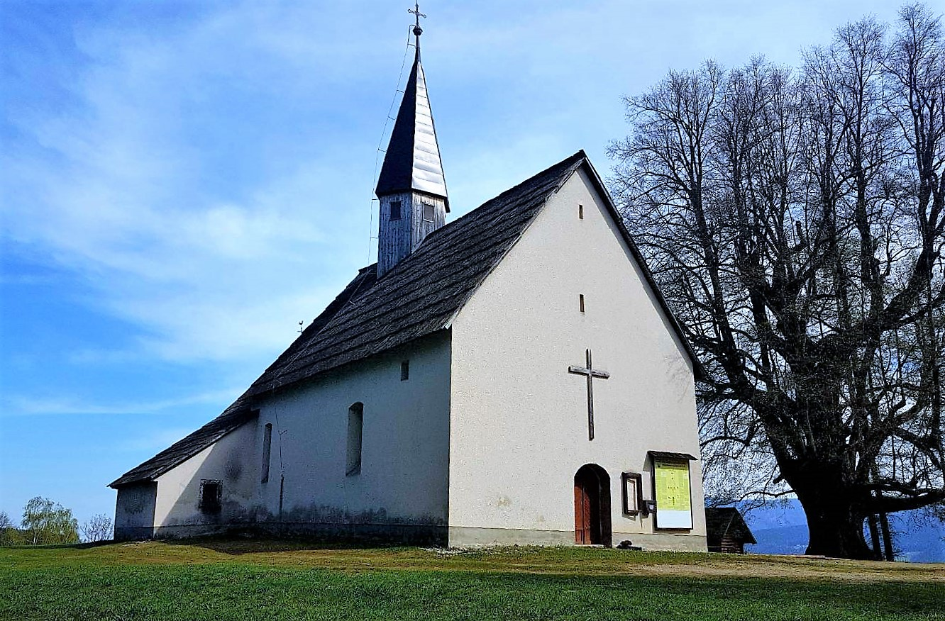 Janževski vrh, St John's church